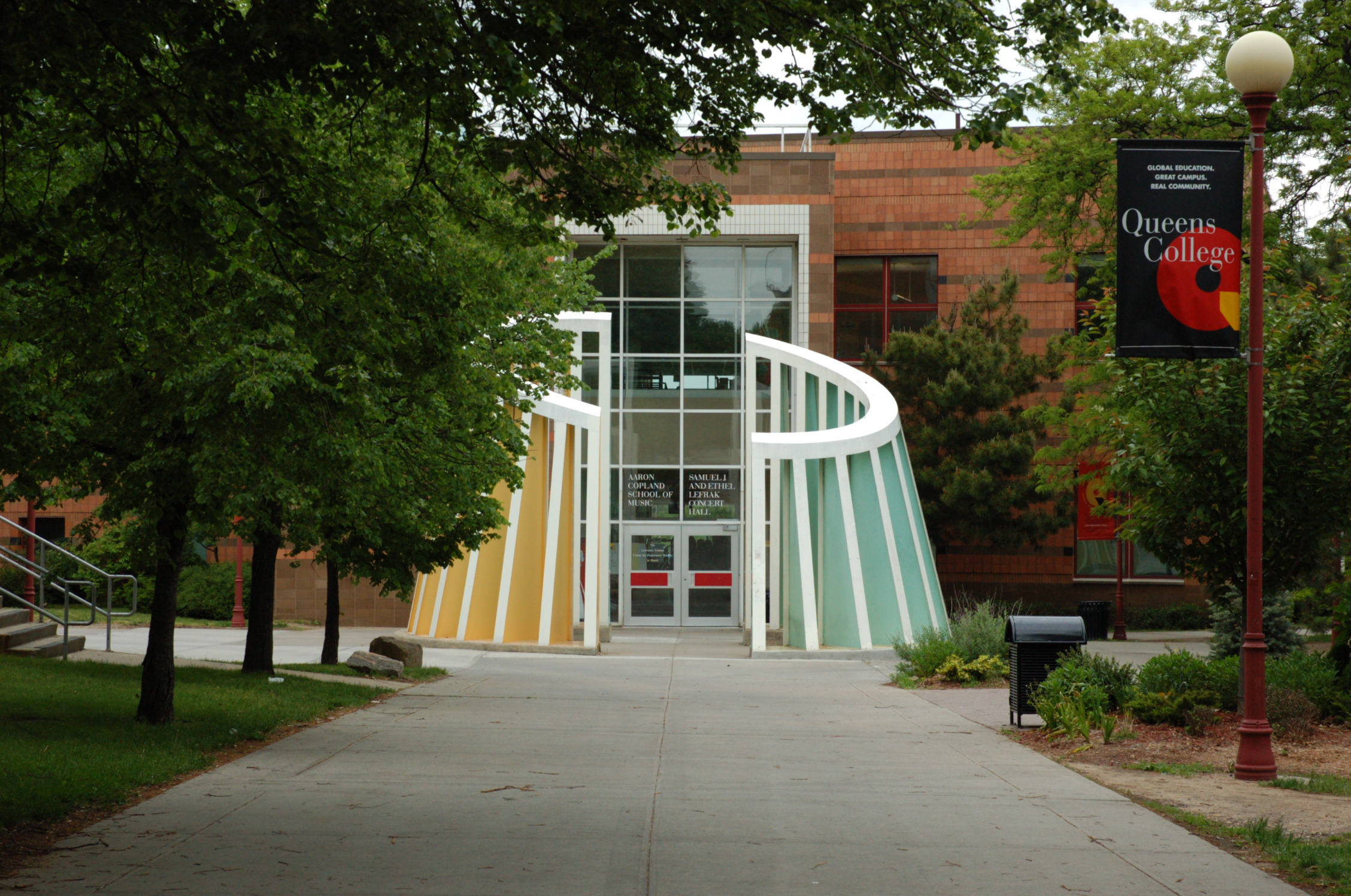 I recently revisited my old school. This is Queens College part of the City University of New York. I attended an honors program there in Communication Arts and Media from 1992 till 94. It was a cloudy day and very few classes were in session due to weekend. A nice trip down the memory land.